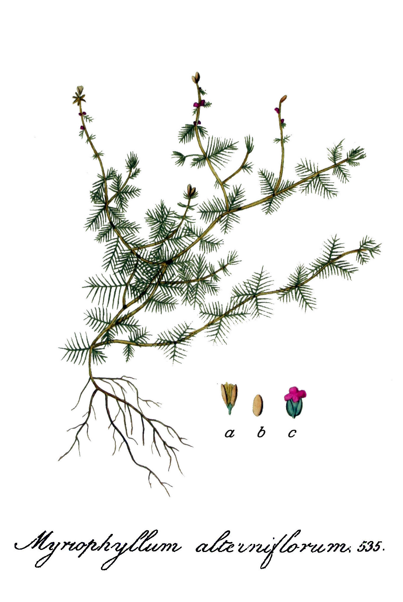 Myriophyllum alterniflorum (Velloso) Verdc. from